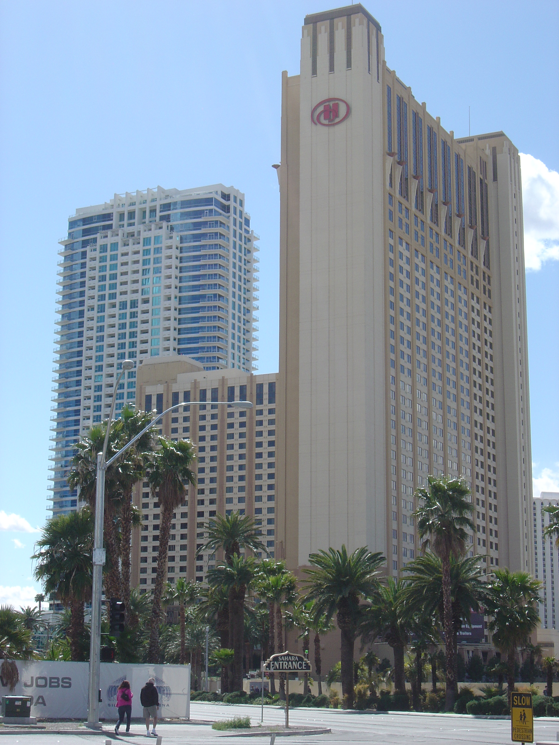 Hilton Grand Vacations Club on the Las Vegas Strip, with Sky Las Vegas condo tower in the background.